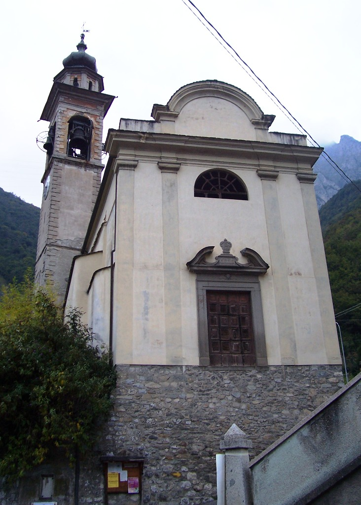 Church of S Maurice. Losine, Val Camonica